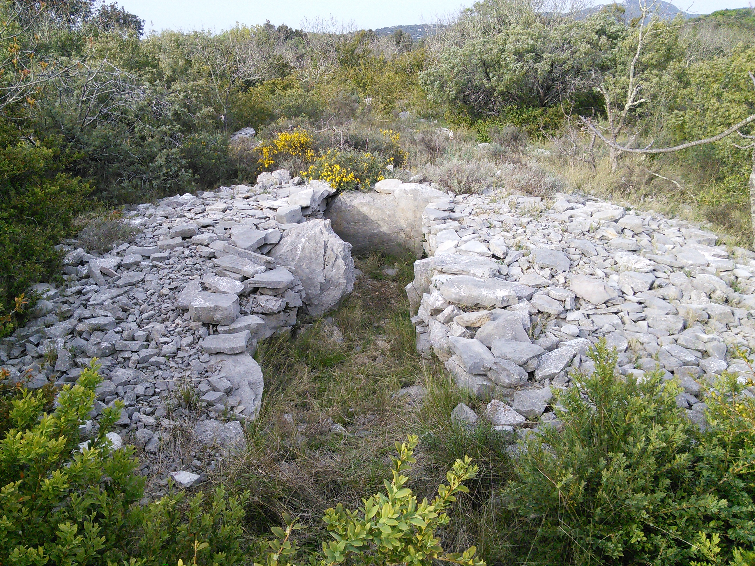 "Dolmen of Limit 2" located in the municipality of Mas-de-Londres (Hérault - France).